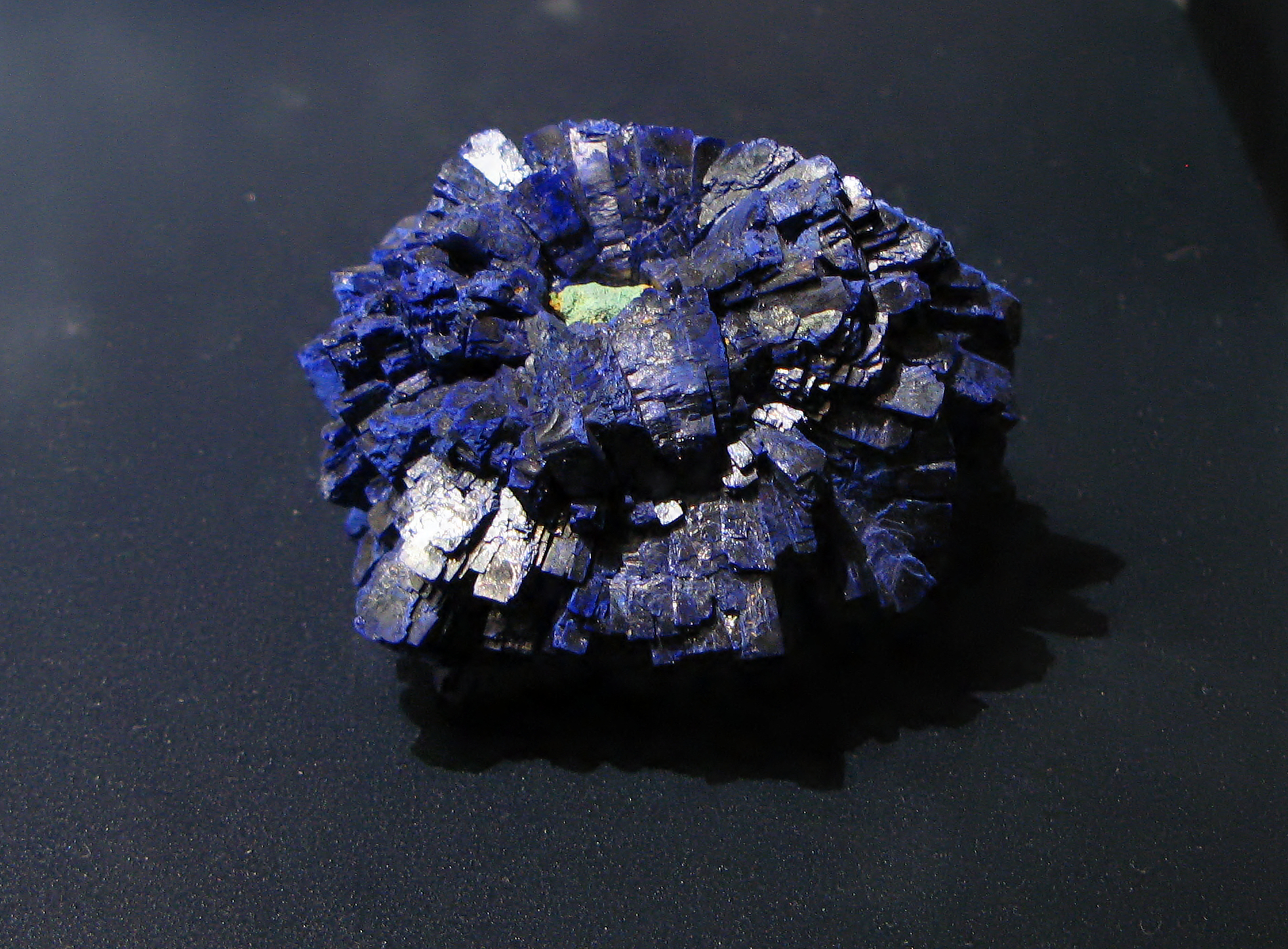 Yünnan-Azurite - Locality: Guangdong Province, China - Exposed in the Ruhr Museum at Zollverein Coal Mine Industrial Complex